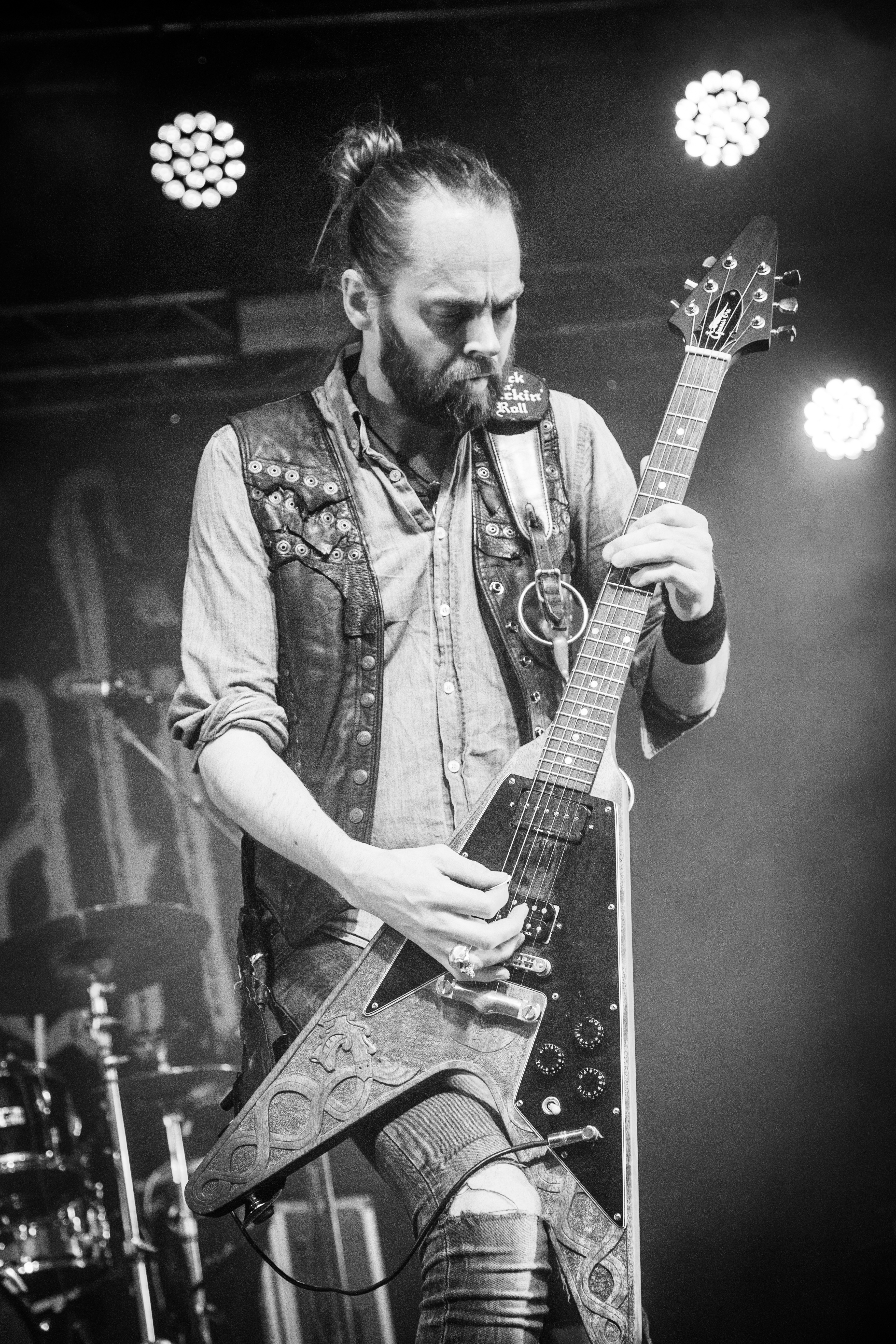 Sólstafir performing live at Eistnaflug 2016